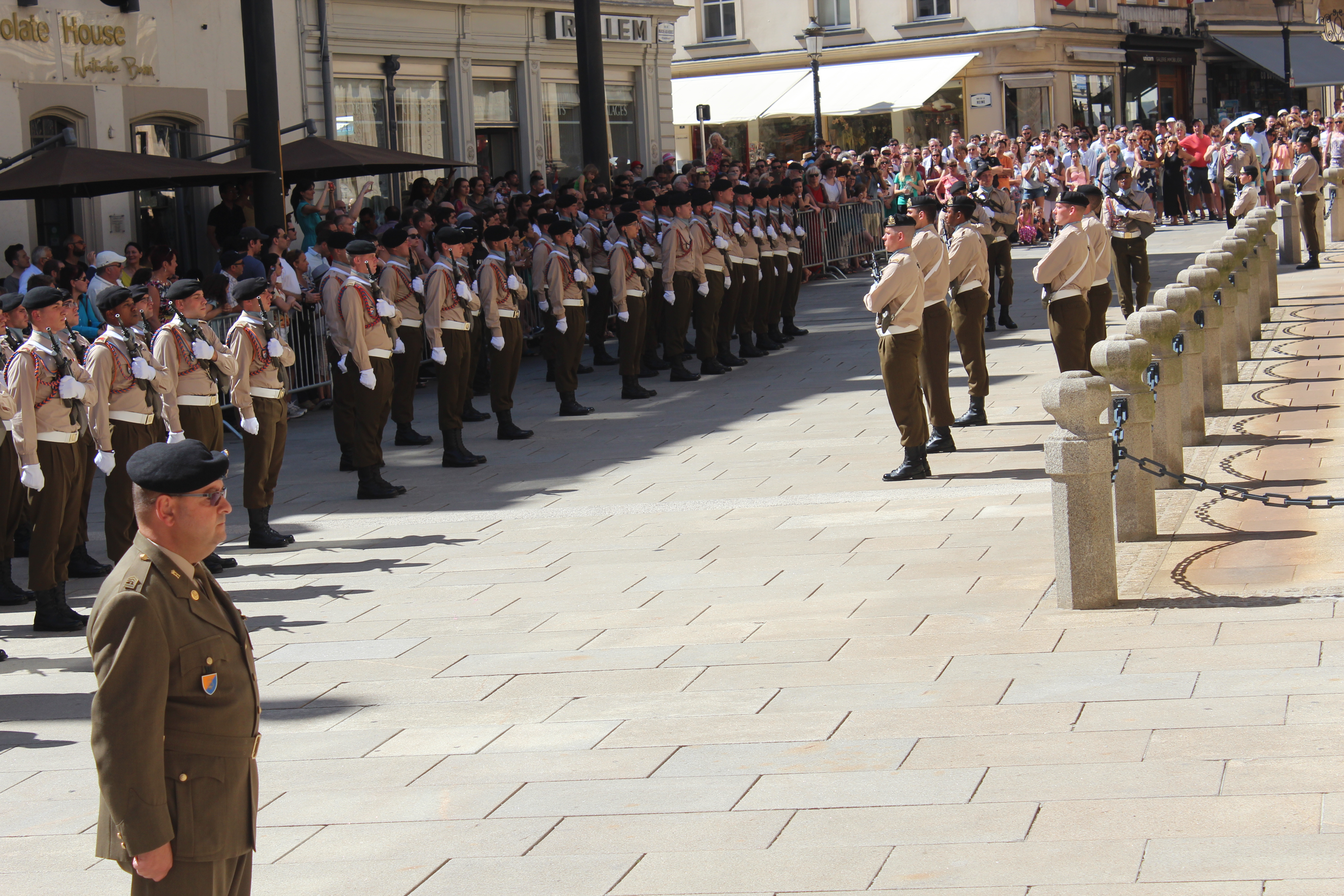 A busload of soldiers from the Luxembourg Army, during a Changing the Guard ceremony